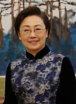 President Rodrigo Roa Duterte's long-time partner Cielito "Honeylet" Avanceña and People's Republic of China State Council Premier Li Keqiang's wife Cheng Hong pose for posterity prior to the start of the dinner hosted by the State Council Premier at the Diaoyutai State Guest House in Beijing on April 25, 2019. ALFRED FRIAS/PRESIDENTIAL PHOTO